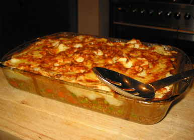 Photo of a Shepherd's Pie